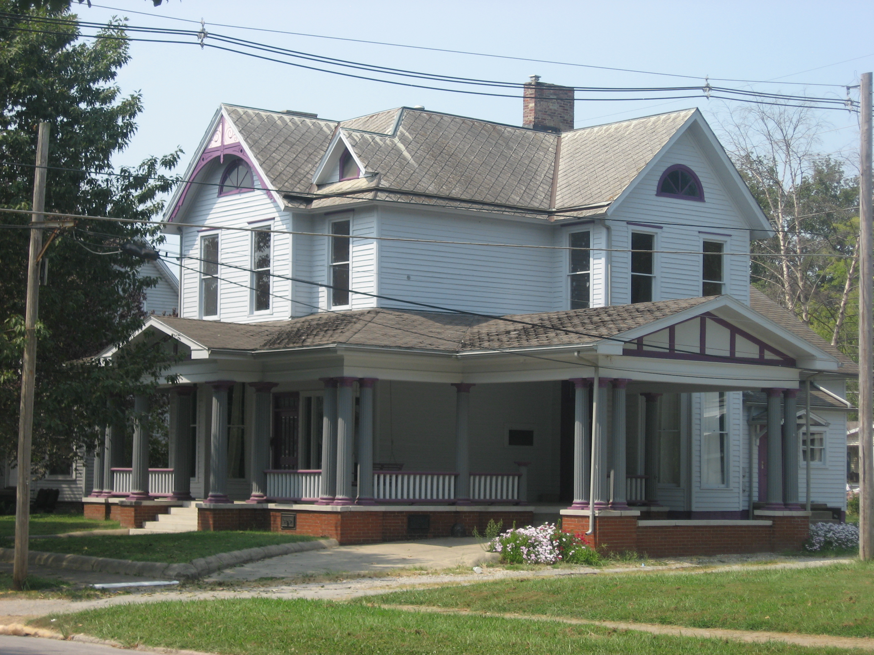 Front and eastern side of the William Gonnerman House, located at 521 W. Second Street in Mount Vernon, Indiana, United States. Built in 1895 and the home of state senator William Gonnerman, it is listed on the National Register of Historic Places.